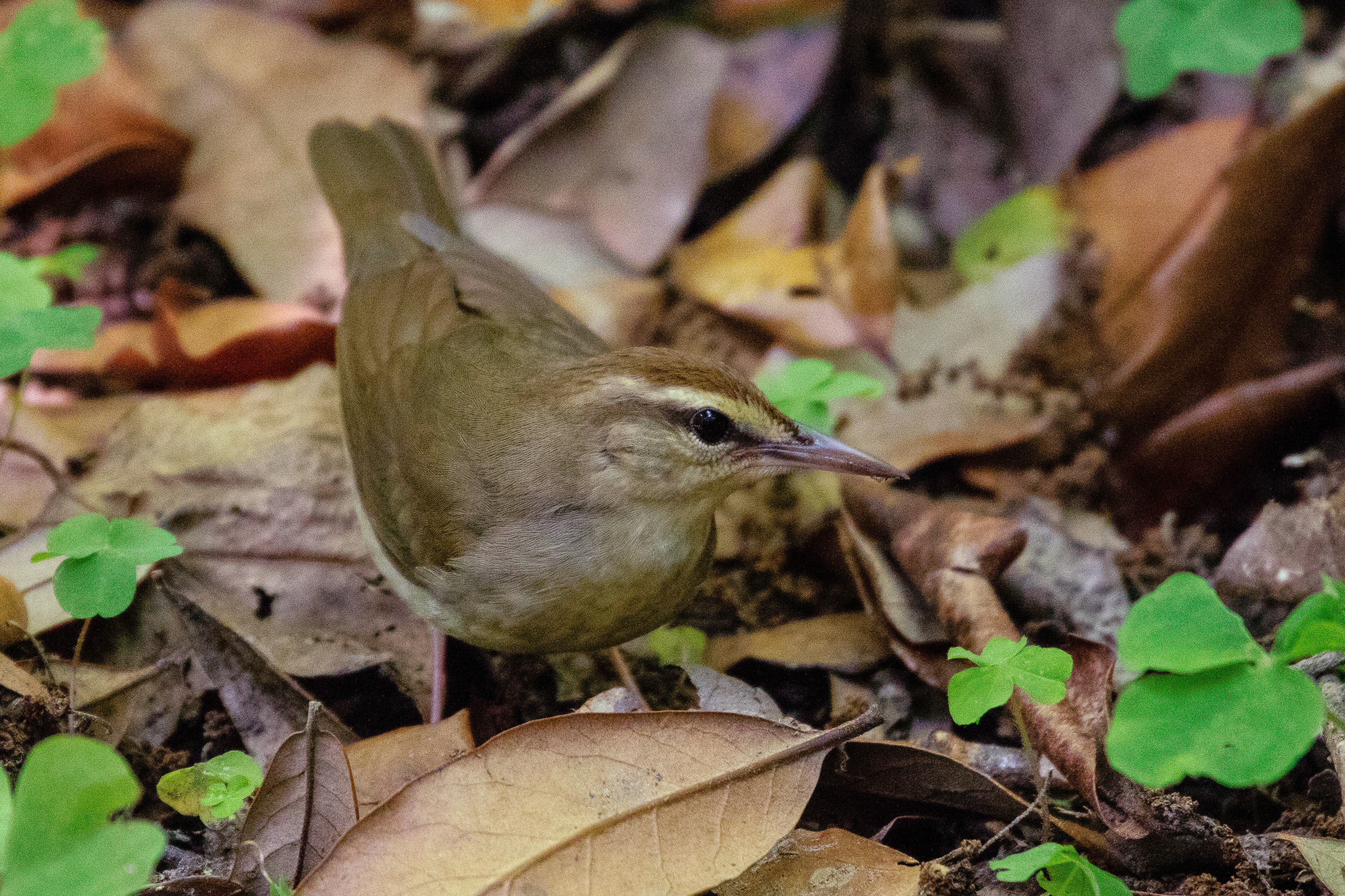 Swainson's Warbler | Hooks Wood | High Island | TX|2018-04-11|09-59-15.jpg